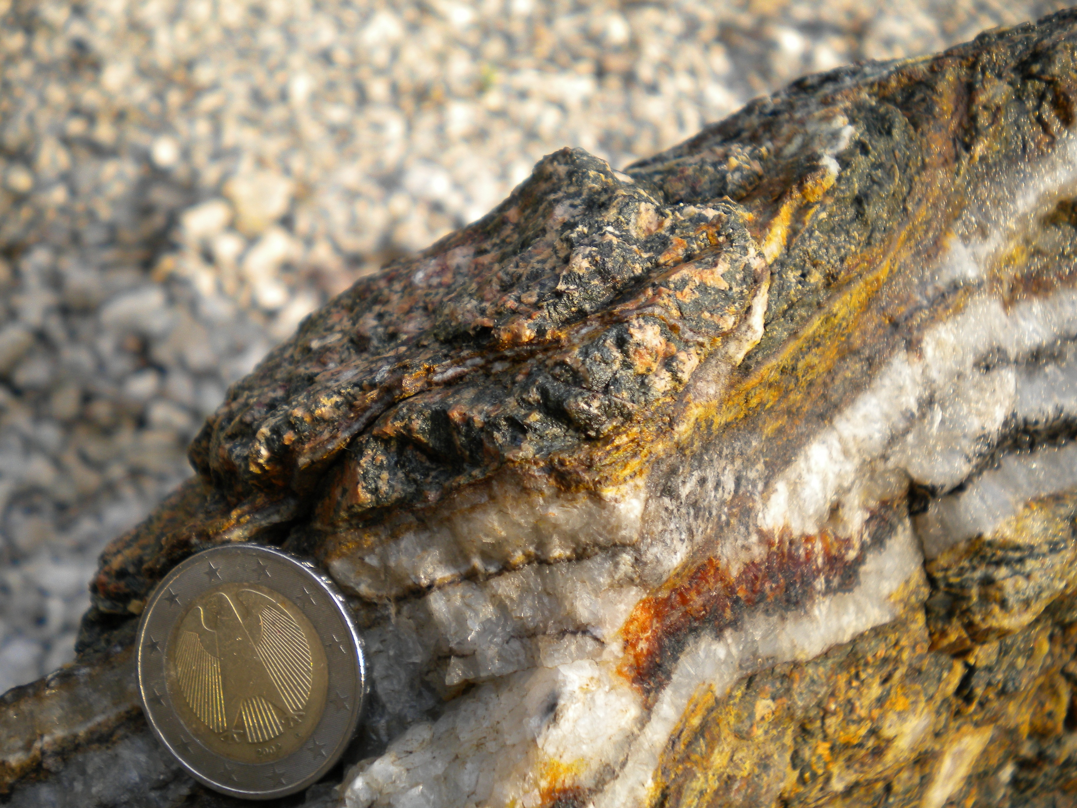 Quartz diorite from Mazières, Charente, France. Shown are three parts. Stretched and internally overthrusting quartz diorite on top of coin above a calcite-filled shear band, partially still open. Below strongly tectonised quartz diorite.